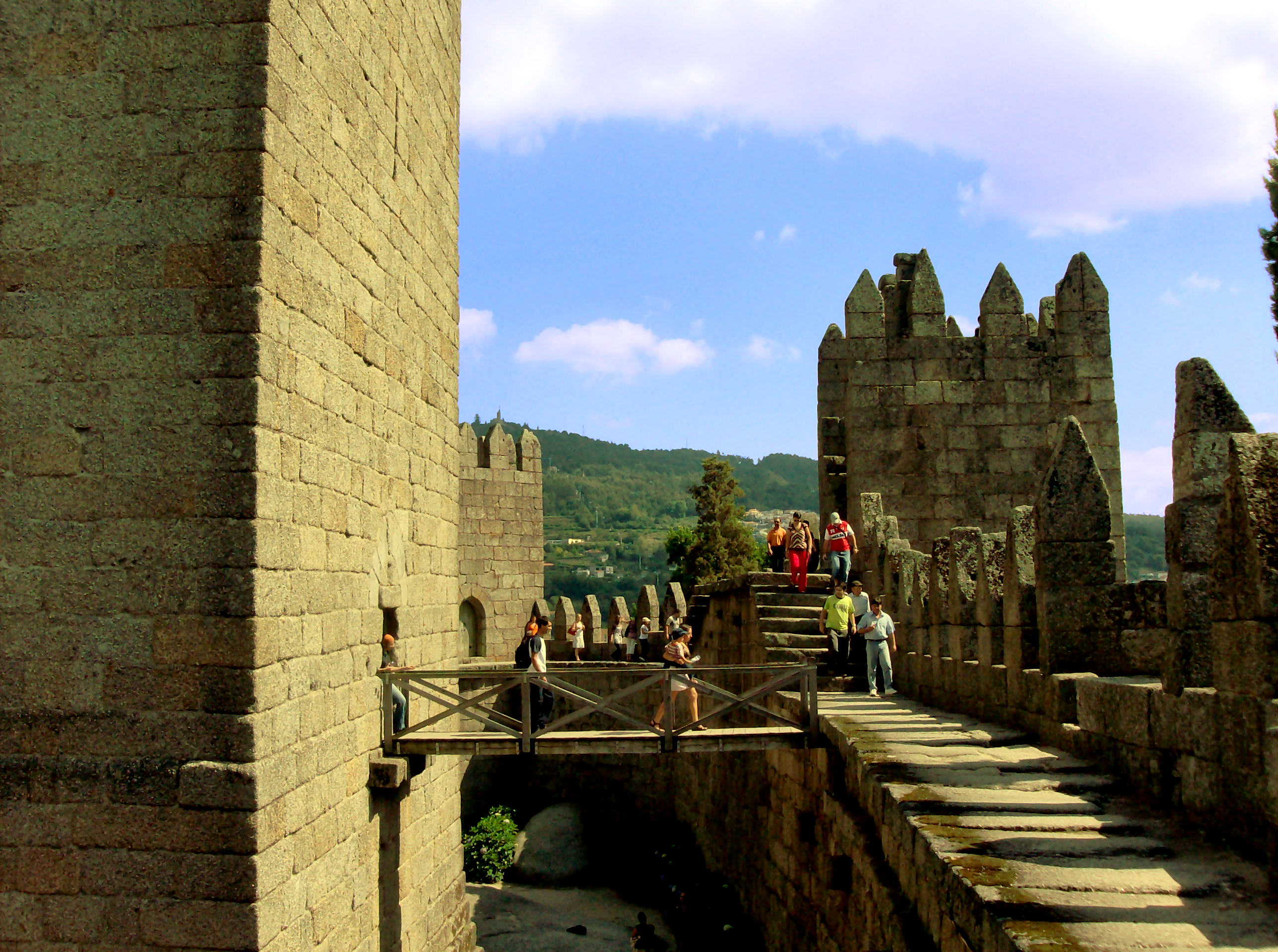 Entrance to the keep